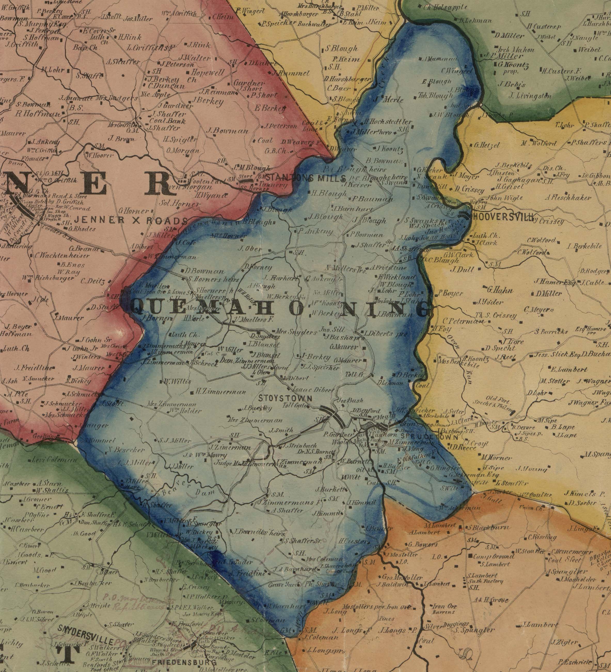 Map of Quemahoning Township, Pennsylvania, taken from 1860 Edward L. Walker map of Somerset County available at the Library of Congress website